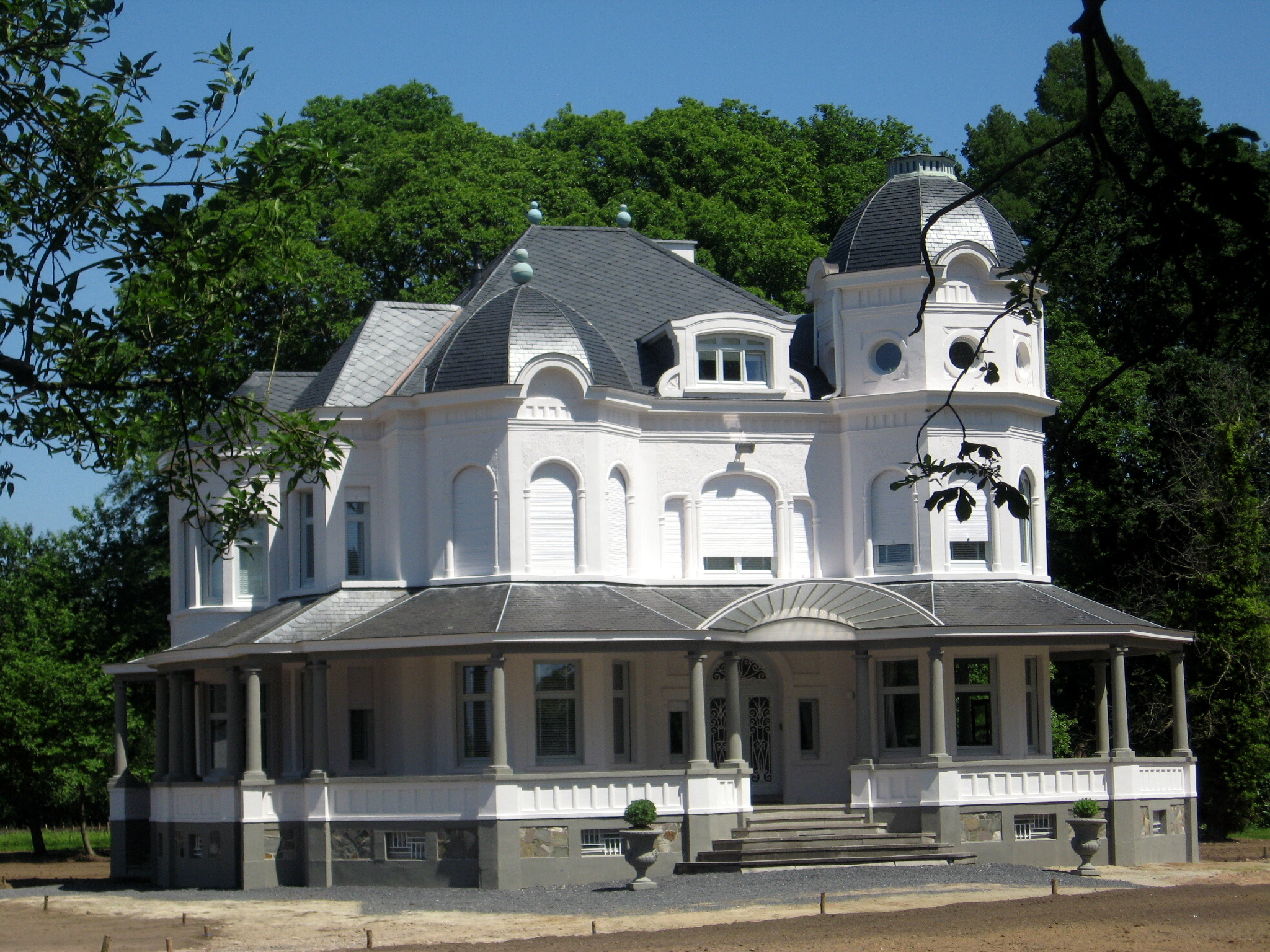 Leva Castle in Alken, Limburg, Belgium